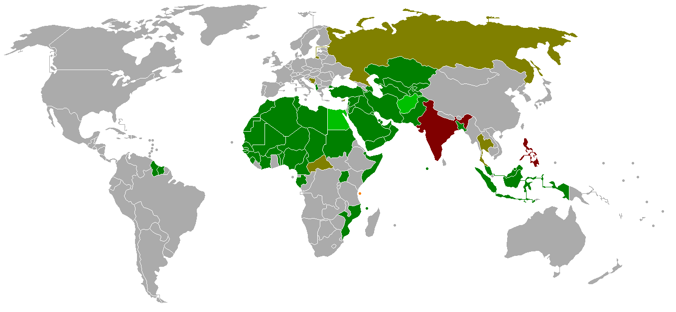 Map of Organisation of Islamic Conference Countries. Original description: Membership in the Organisation of the Islamic Conference. Üyeler الأعضاء Üye Olmaya Aday Olanlar Gözlemciler المراقبون Observer حاولت الانضمام ولكن سدت Attempted to join but blocked